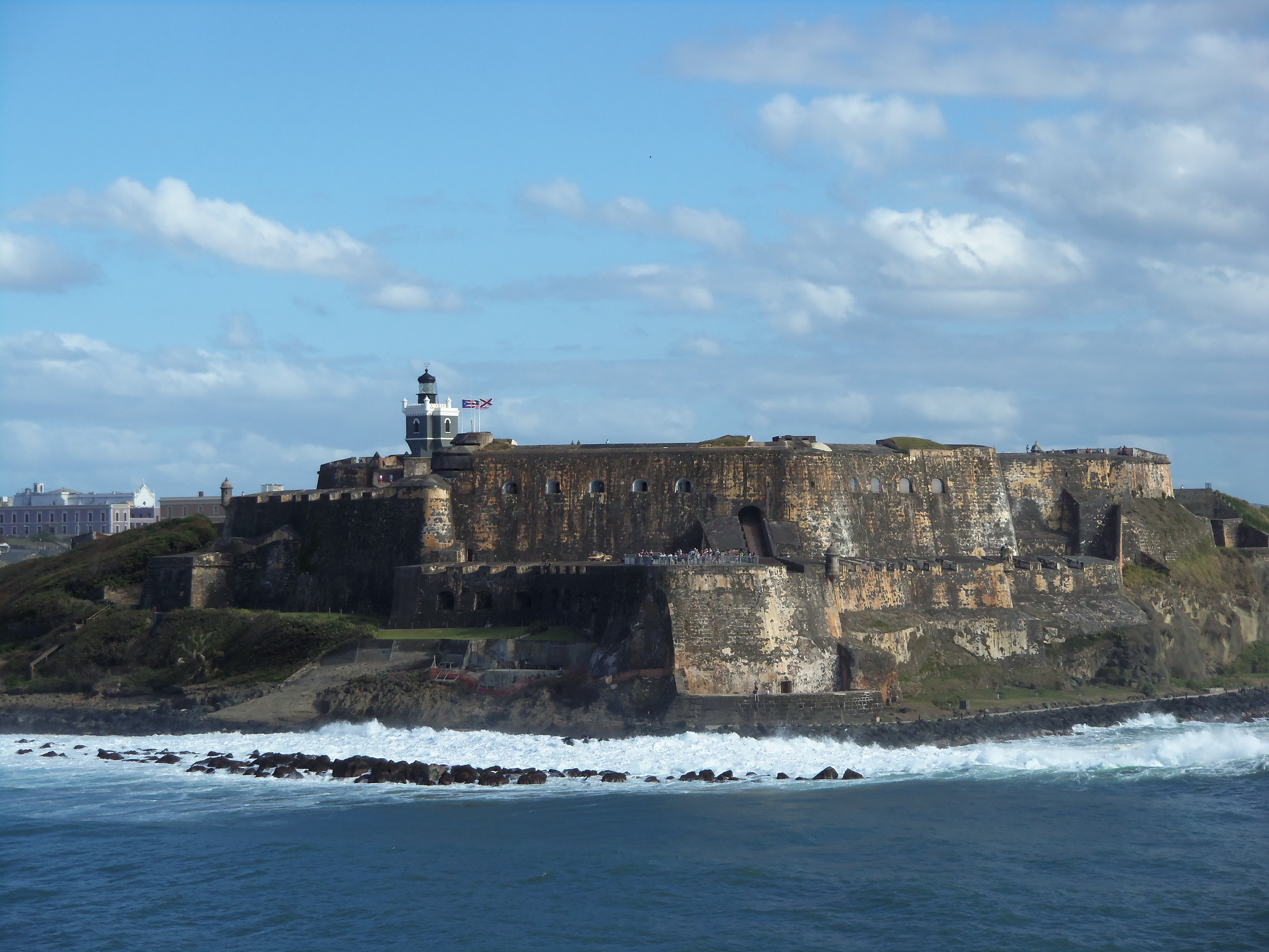 Fort San Felipe del Morro in San Juan, Puerto Rico.